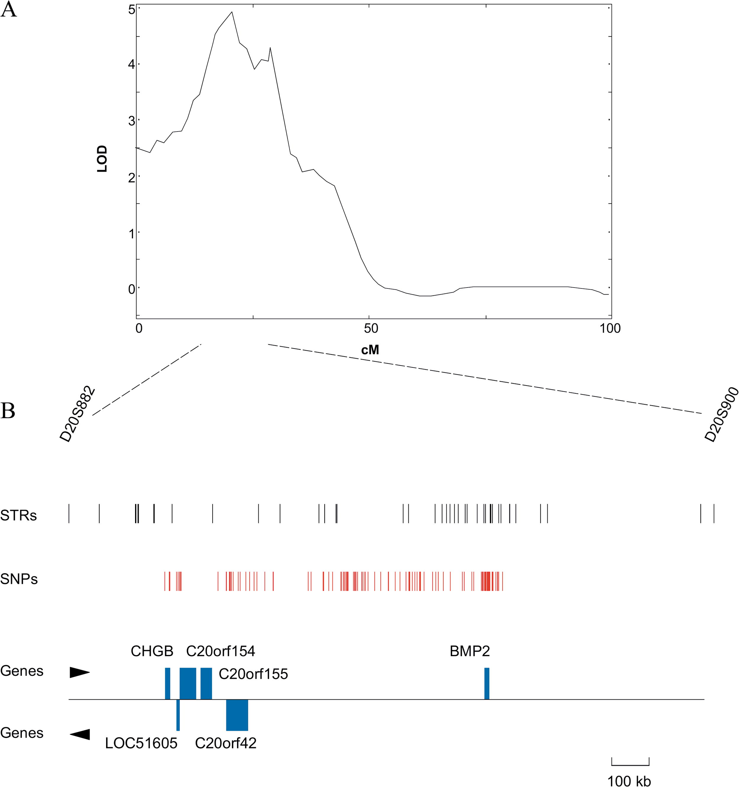 Example of a Scan for Quantitative Trait Loci (QTL) on a single chromosome; this study was performed on patients with osteoporosis; 1,100 microsatellite markers were used for a Genome-wide Scan, and the main finding was a major QTL on chromosome 20 which is shown here with the detailed QTL data; see also this image for the complete results of all chromosomes